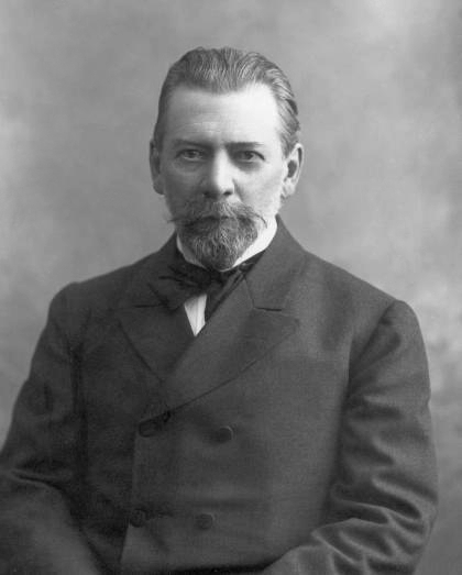 Bogdan Khanenko (1849—1917) — russian industrialist, art collector and philanthropist. Member of the State Council of the Russian Empire (1906—1912), Honorary Member of the Imperial Academy of Arts in St. Petersburg.